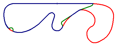 Fuji Speedway old layout. Red denotes the old circuit parts and green the newly added